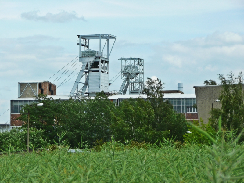 Königstein: the two main shafts (shaft 388 and shaft 390) of the Wismut uranium mine.